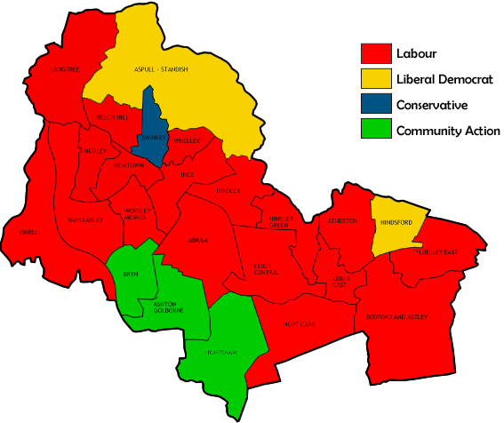 Wigan ward map with political colouring.